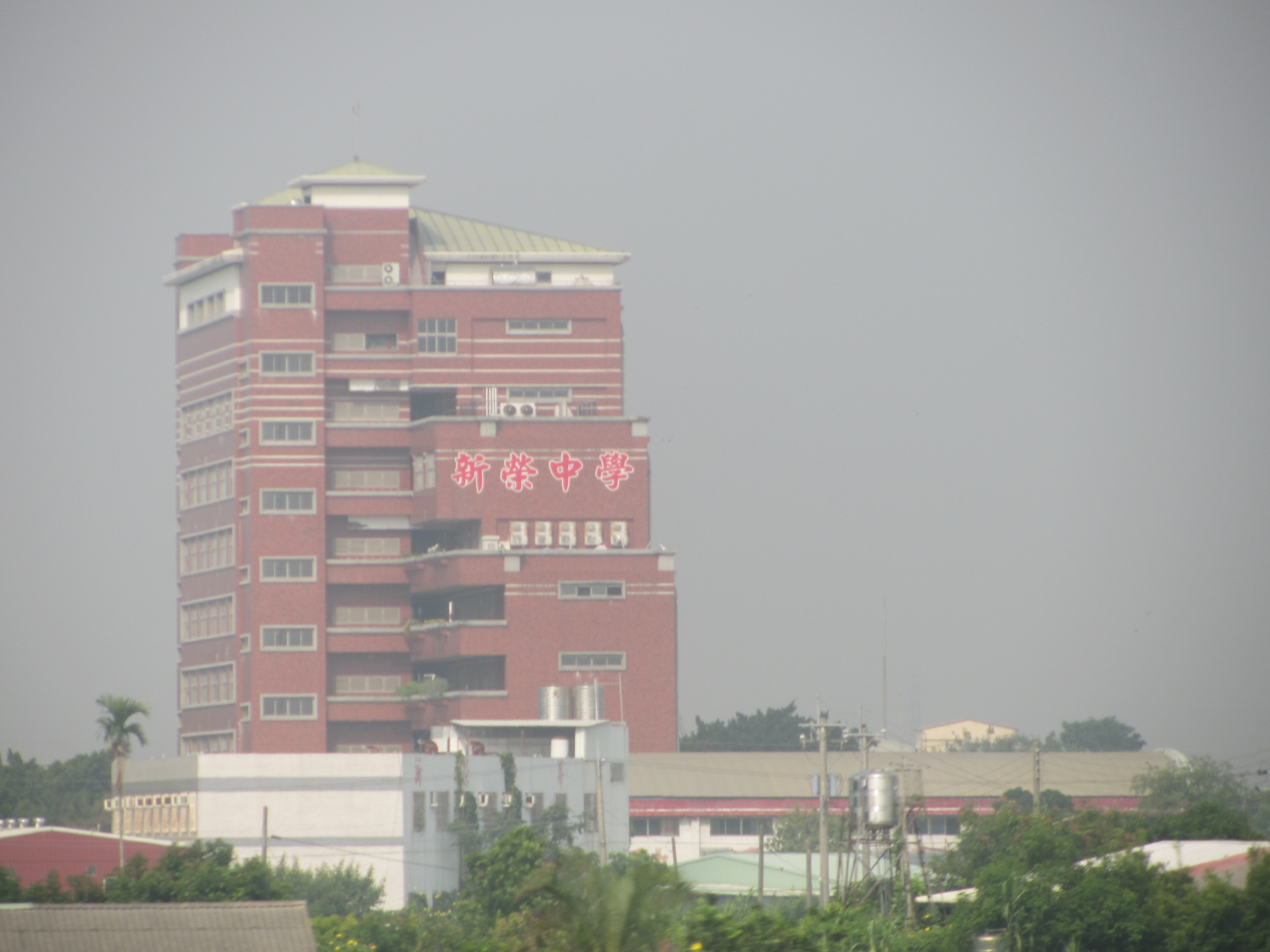 Shin Rong Senior High School